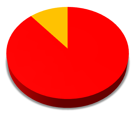 Expressed as a pie chart in the Hiroshima gubernatorial election in 2013, the number of votes for each candidate. explanatory notes ■ - Hidehiko Yuzaki ■ - Satoru Onishi